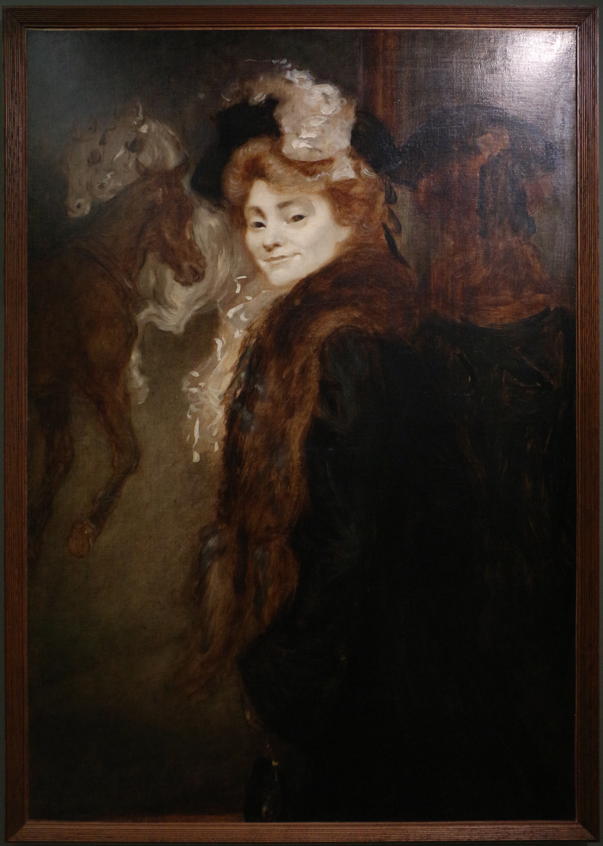 Paintings in Musée d'Orsay